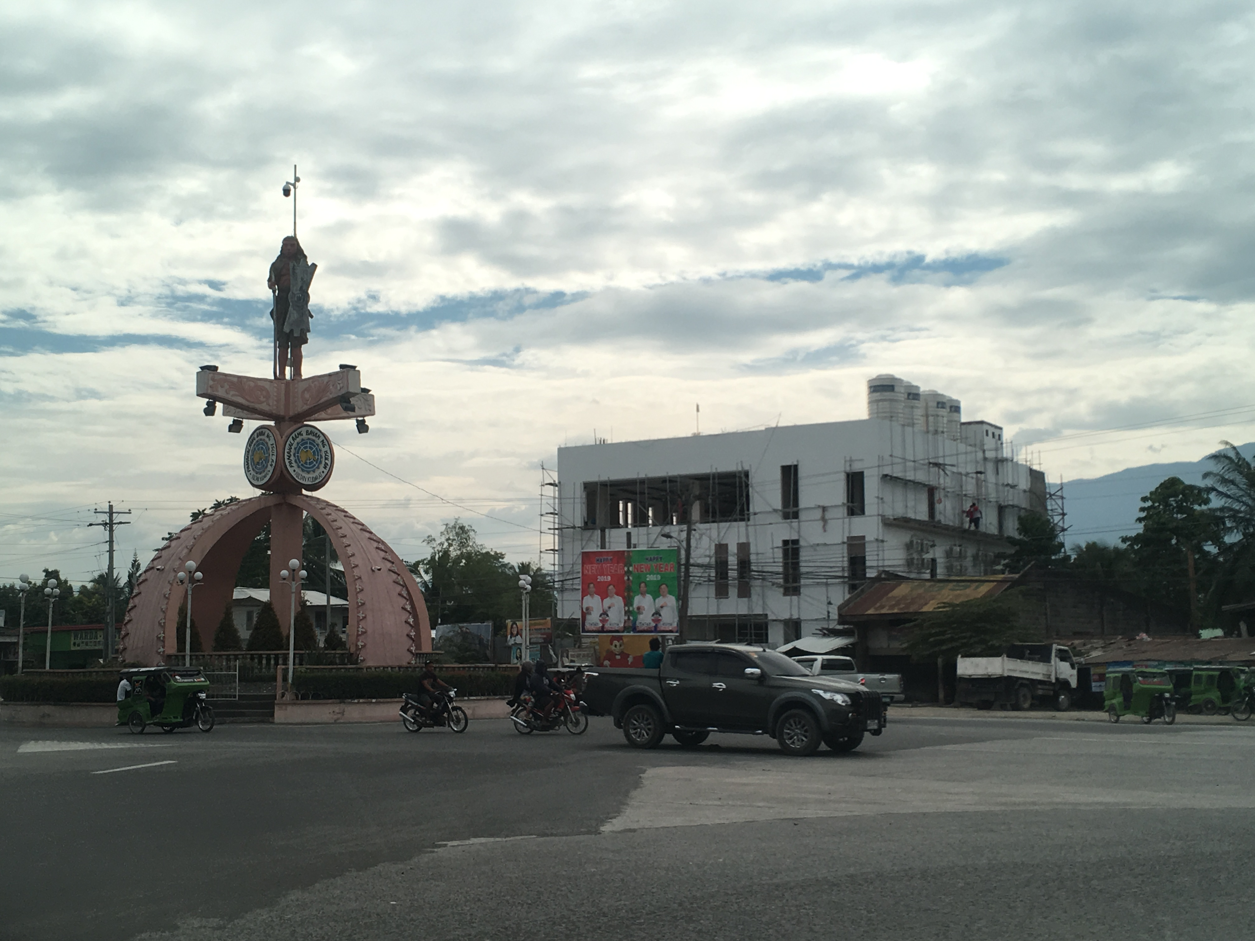 Isulan, Sultan Kudarat Round Ball